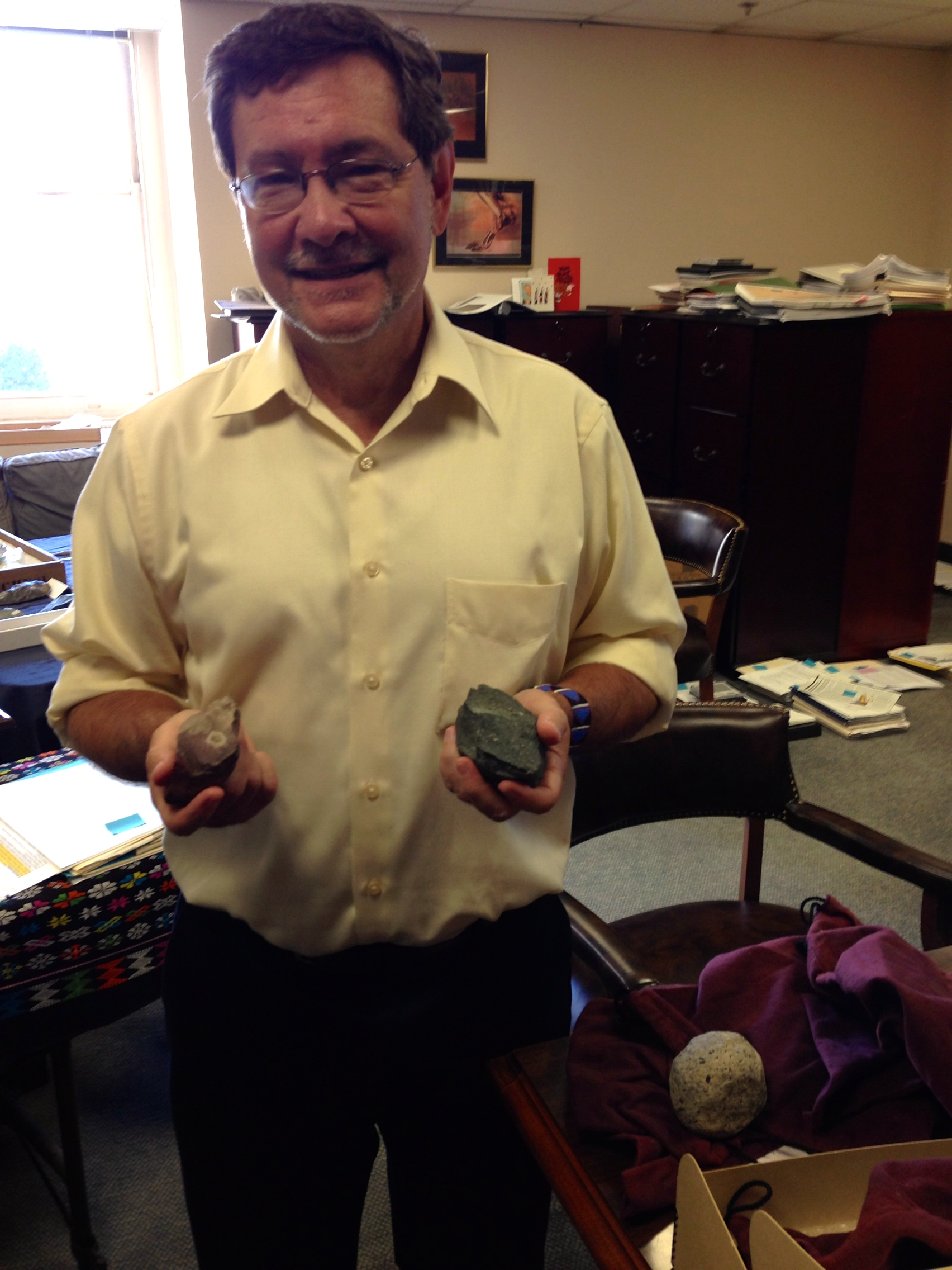 Rick Potts of the Smithsonian in his office showing 2 million year old stone tools crafted by early humans